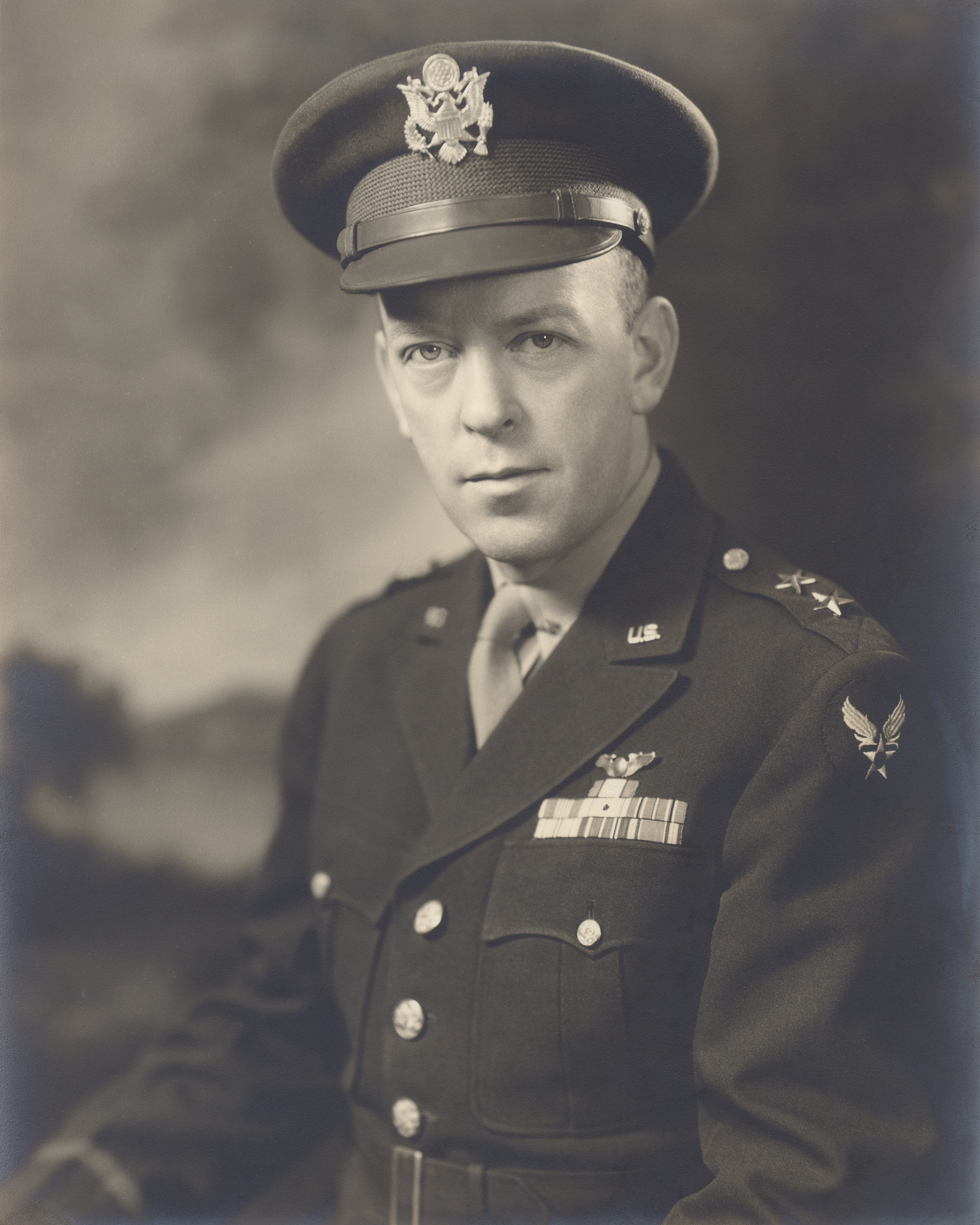 General William F. McKee as Major General